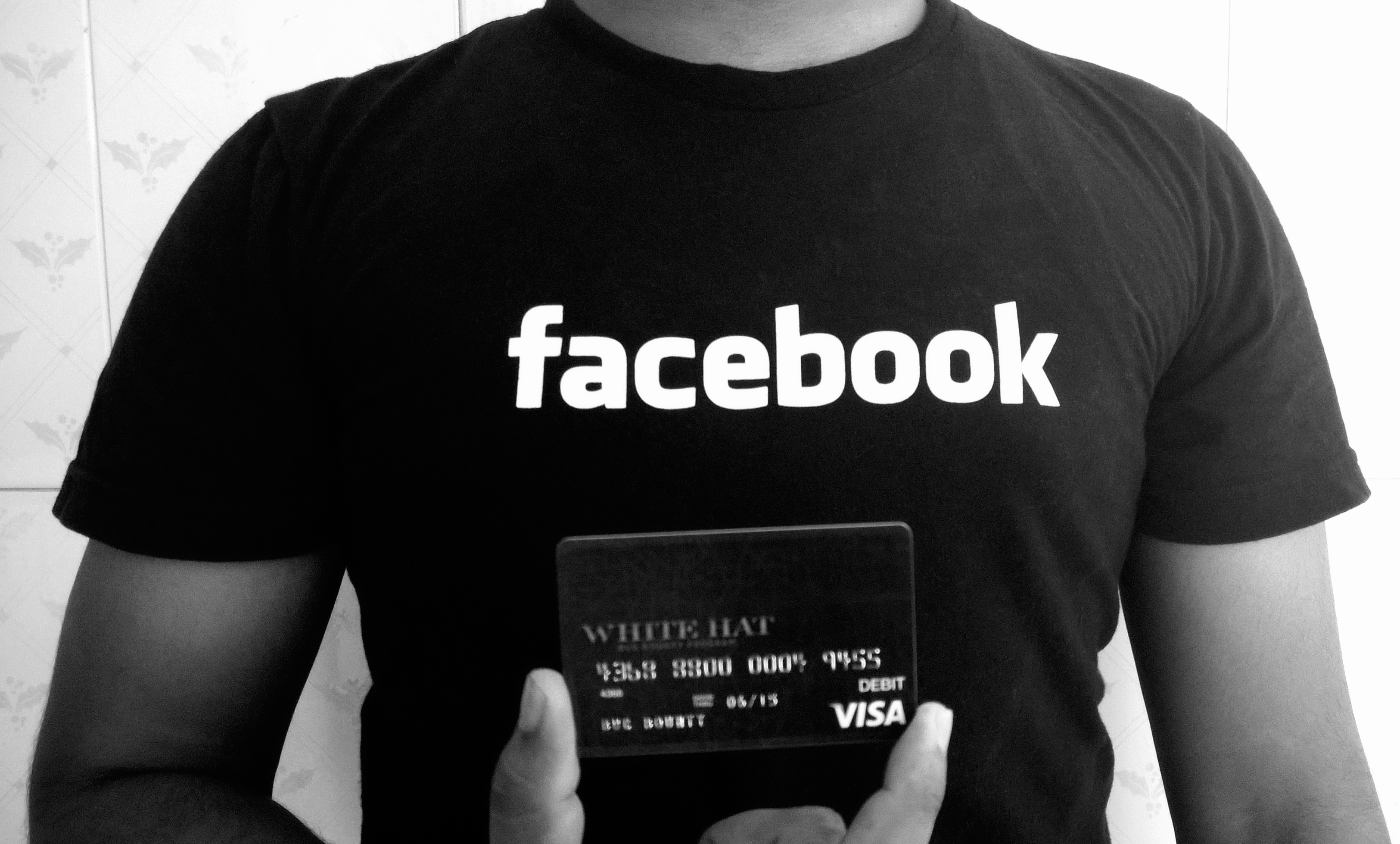 Researcher wearing the Facebook t-shirt and pose with whitehat debit card